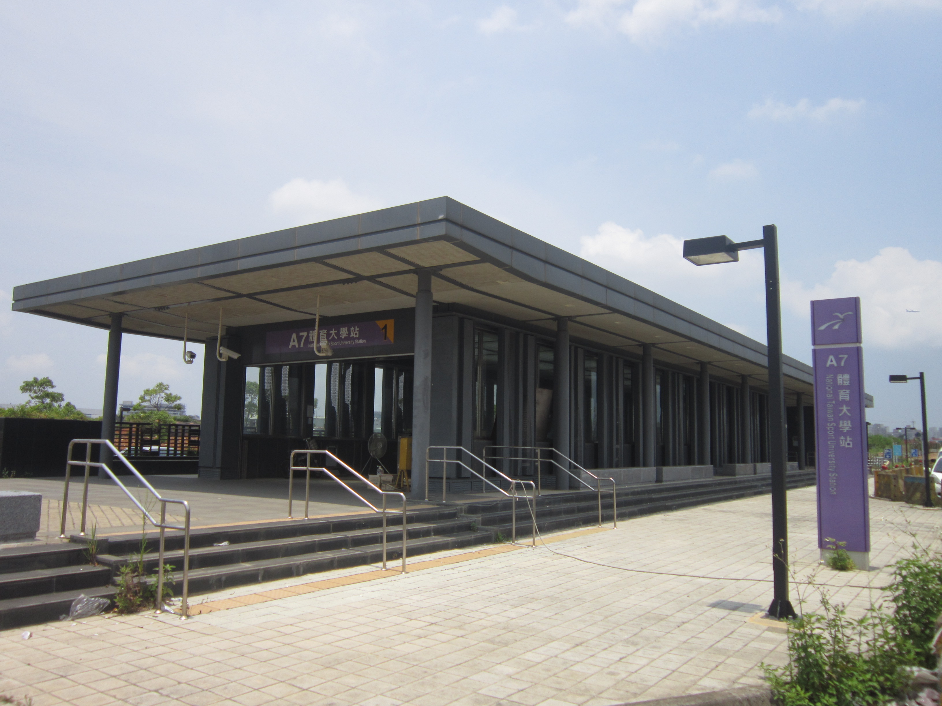 Exit 1, National Taiwan Sports University Station 中文（台灣）: 桃園機場捷運體育大學站一號出口